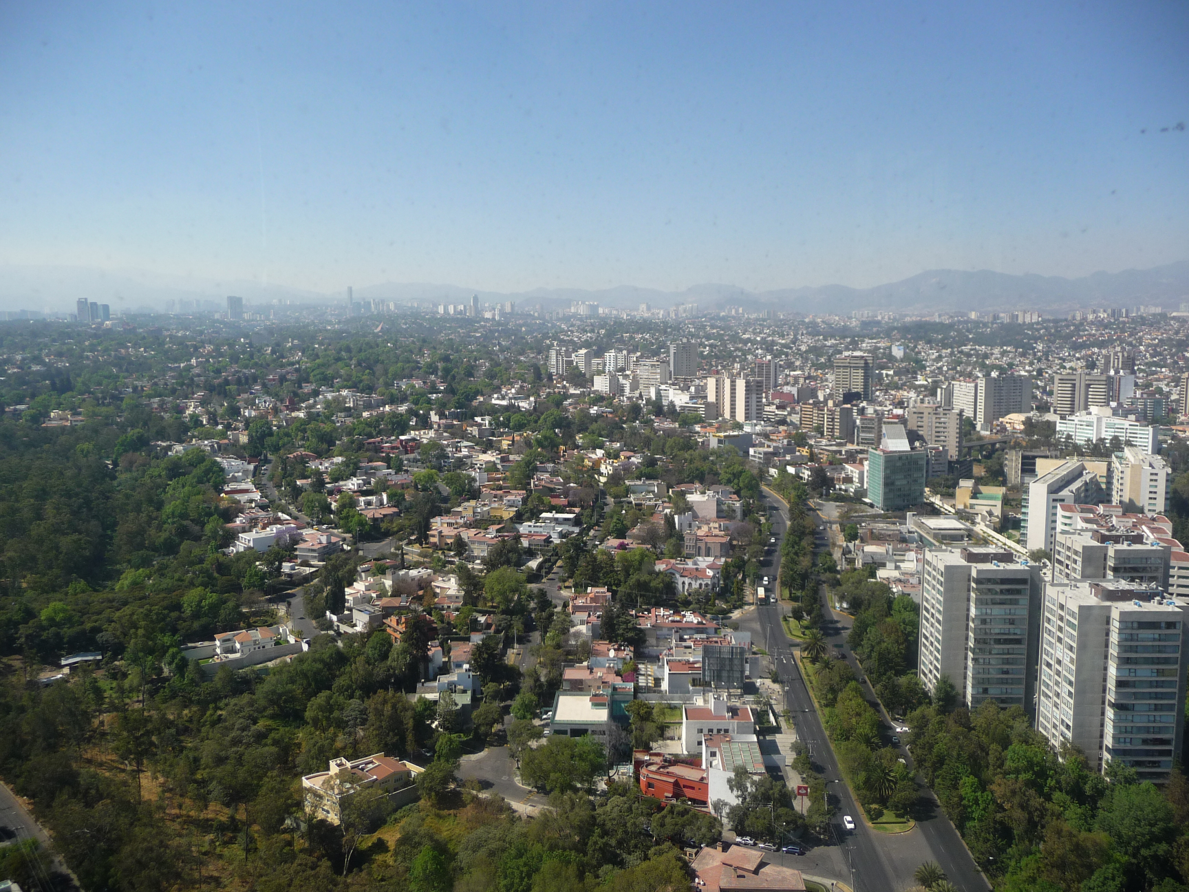 Bird's Eye View of Lomas de Chapultepec and Palmas